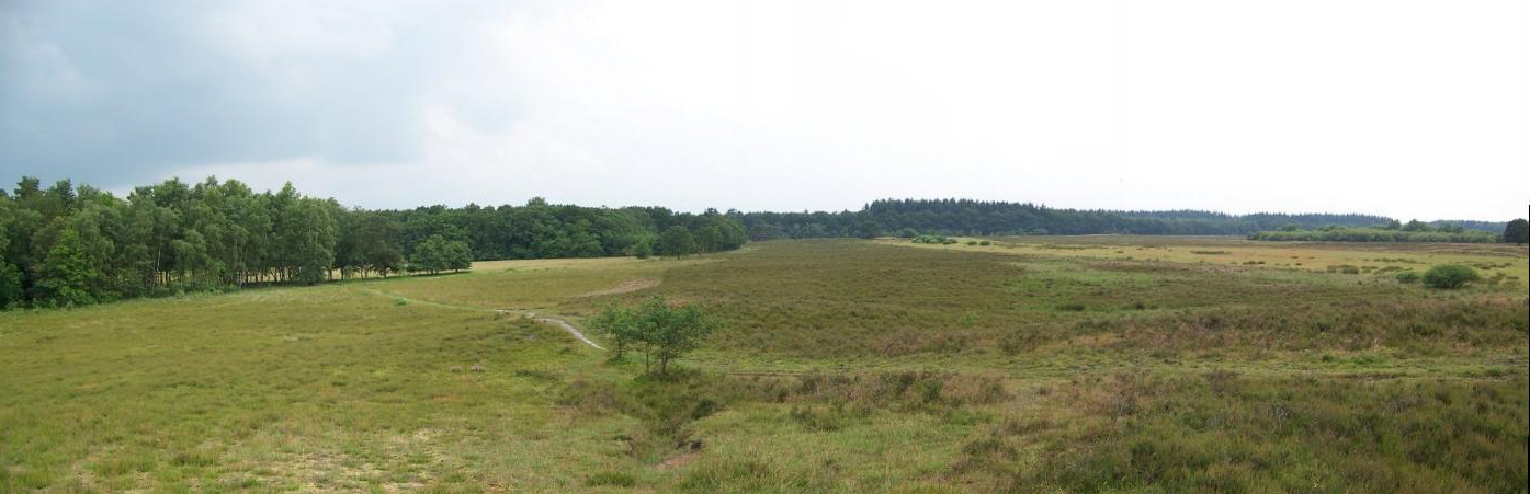 Molenveld in Exloo, The Netherlands